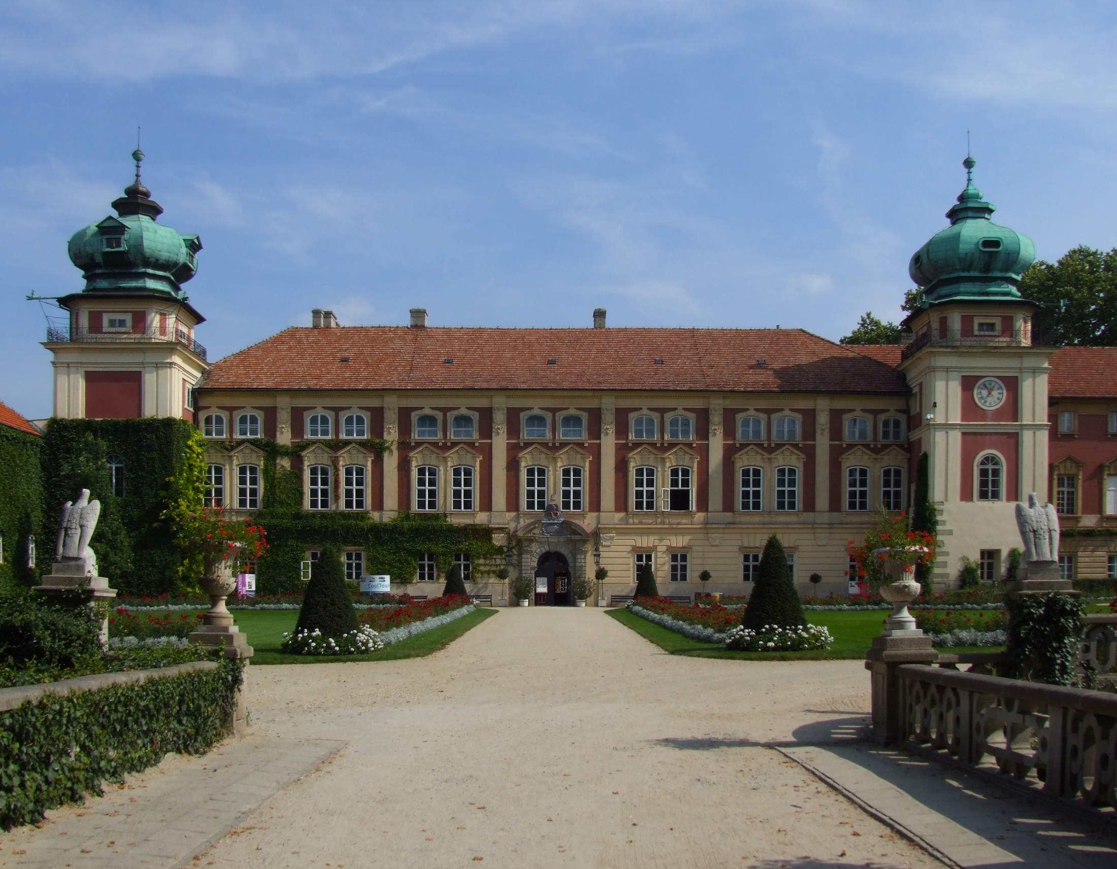 Palace in Łańcut